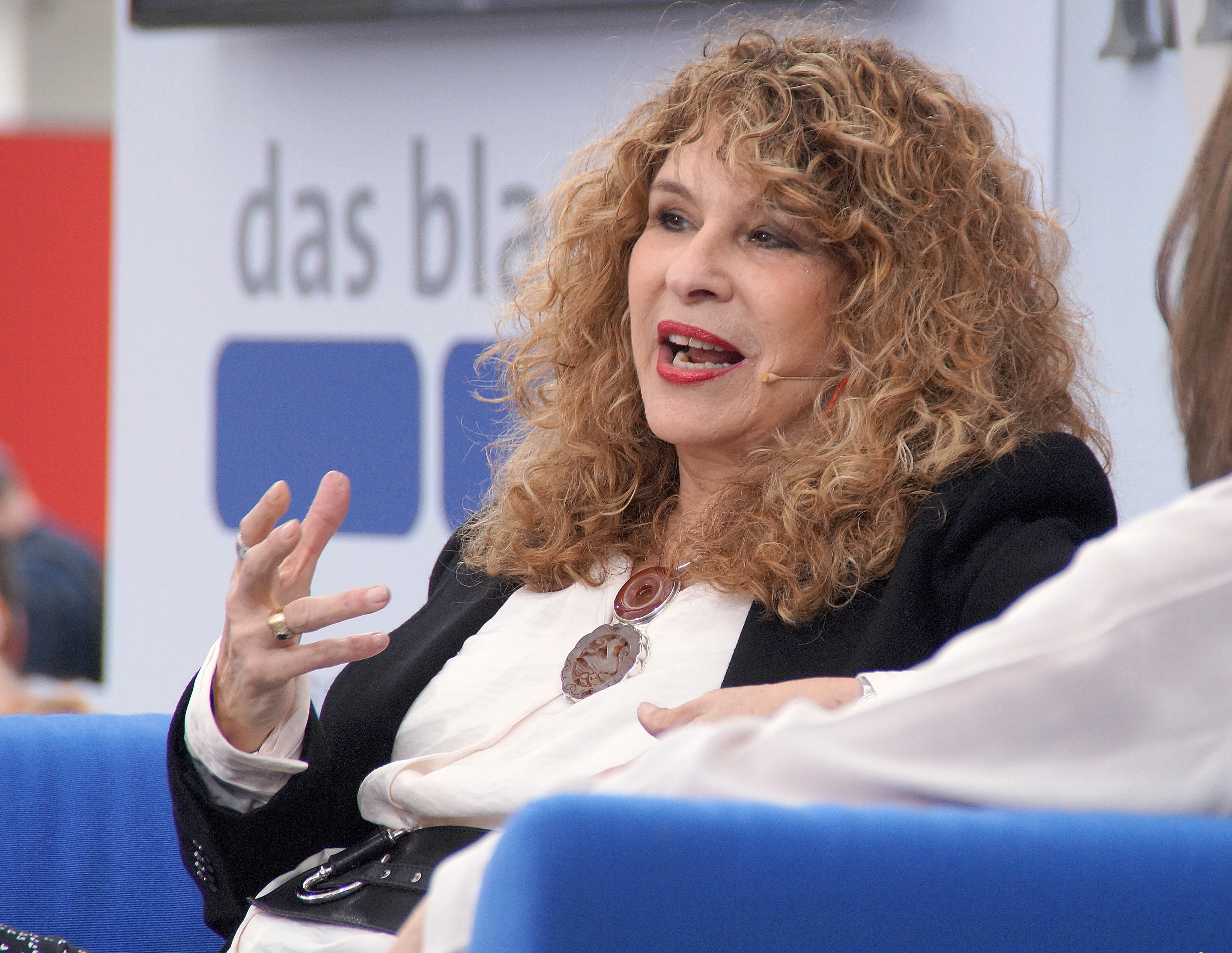 Gioconda Belli talks about her novel "El intenso calor de la luna" (2014) at Leipzig Book Fair 2016.